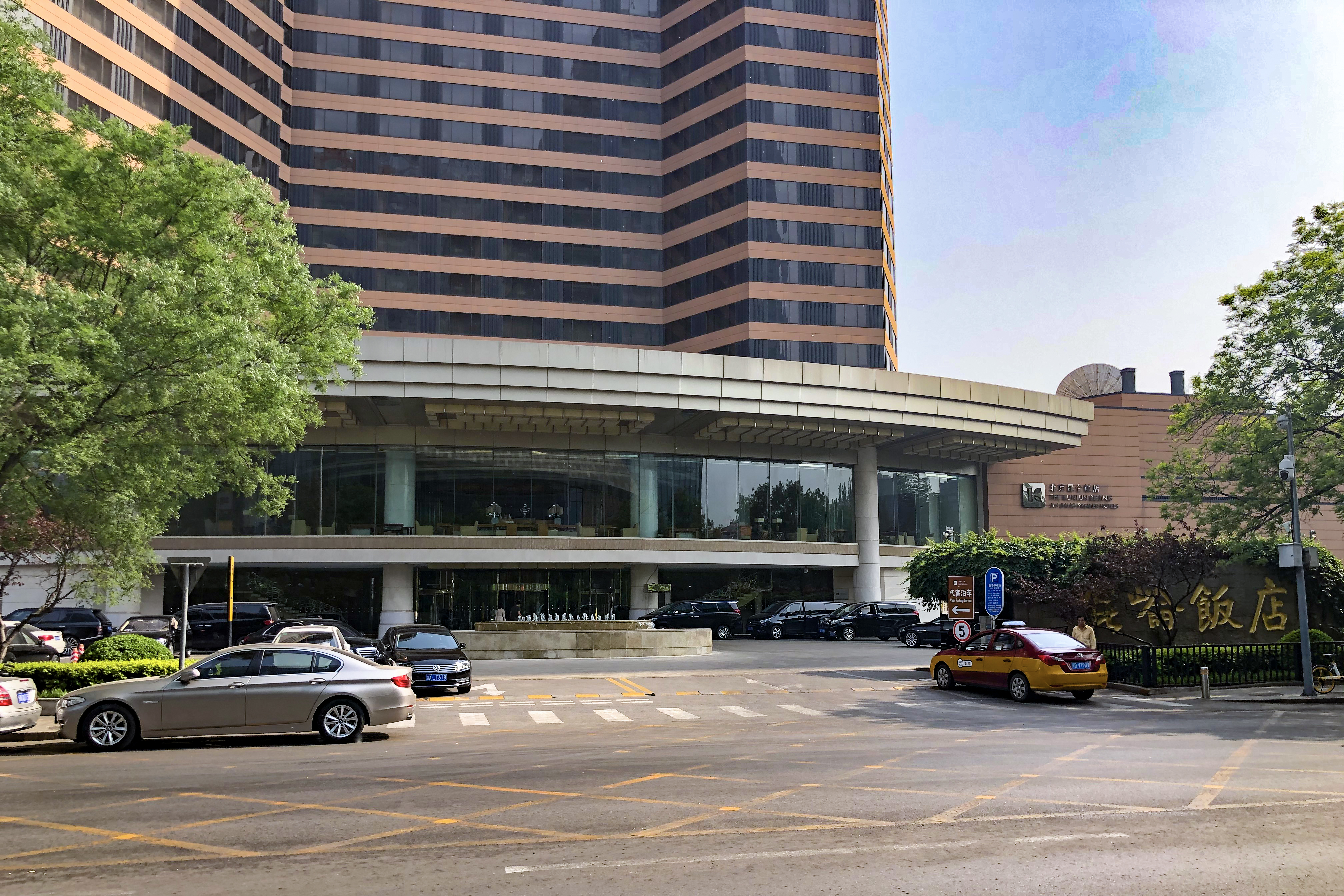 The calligraphy of "Kunlun" (崑崙)...